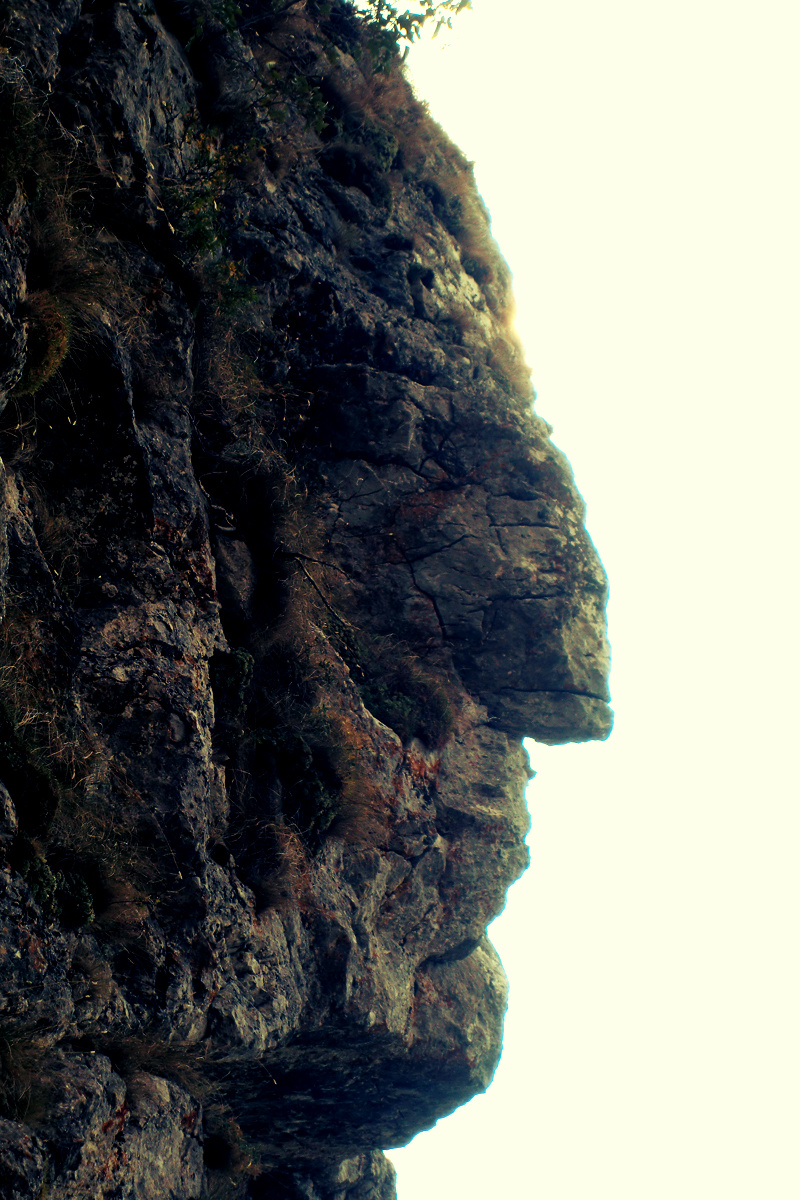 Zeleni grad sphynx BG